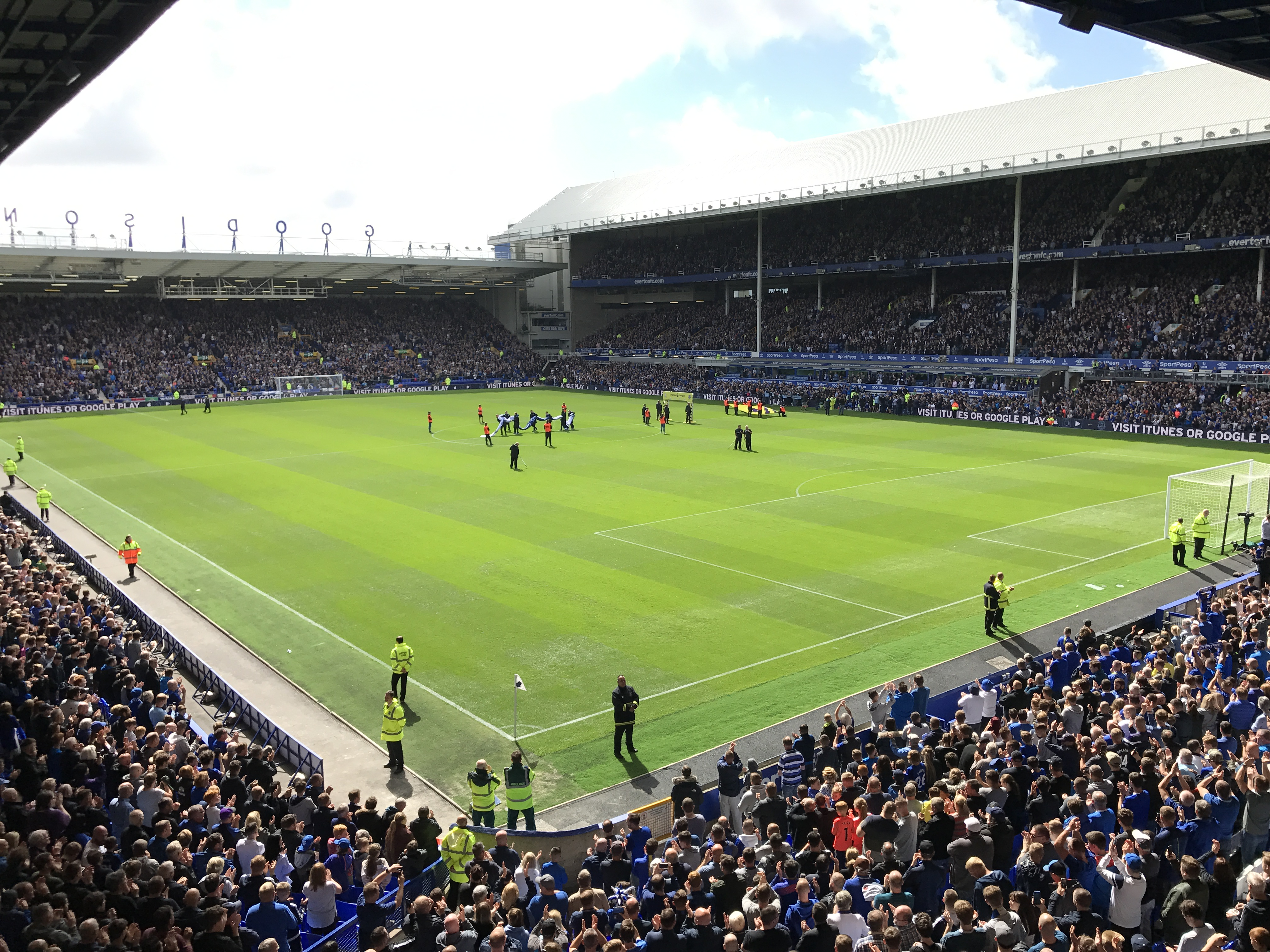 Goodison Park, prior to Everton v Stoke City, 12th August 2017.